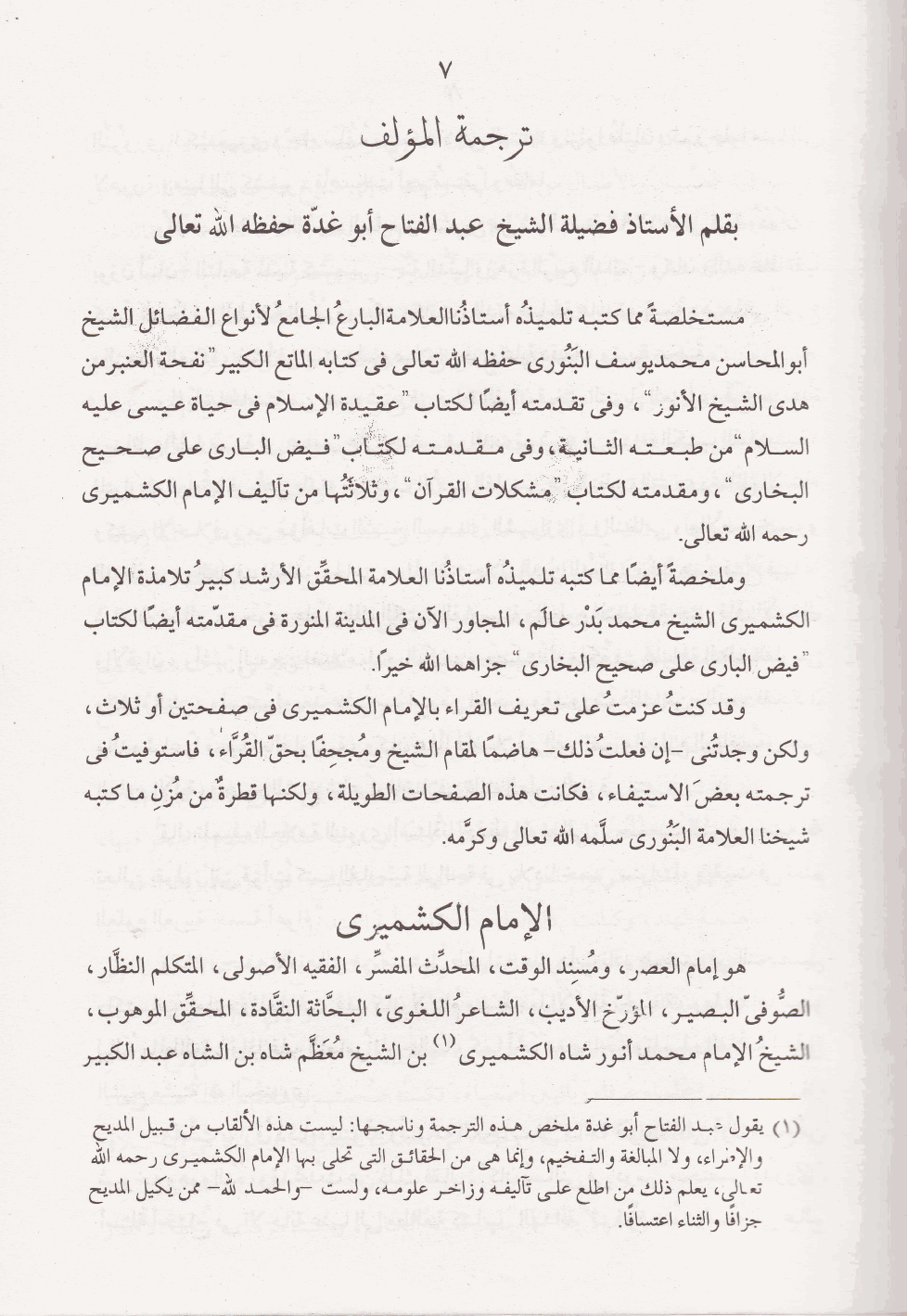 The Arabic biography of " Imam al-'Asr ‘Allamah Anwar Shah al-Kashmiri " ; the first page....